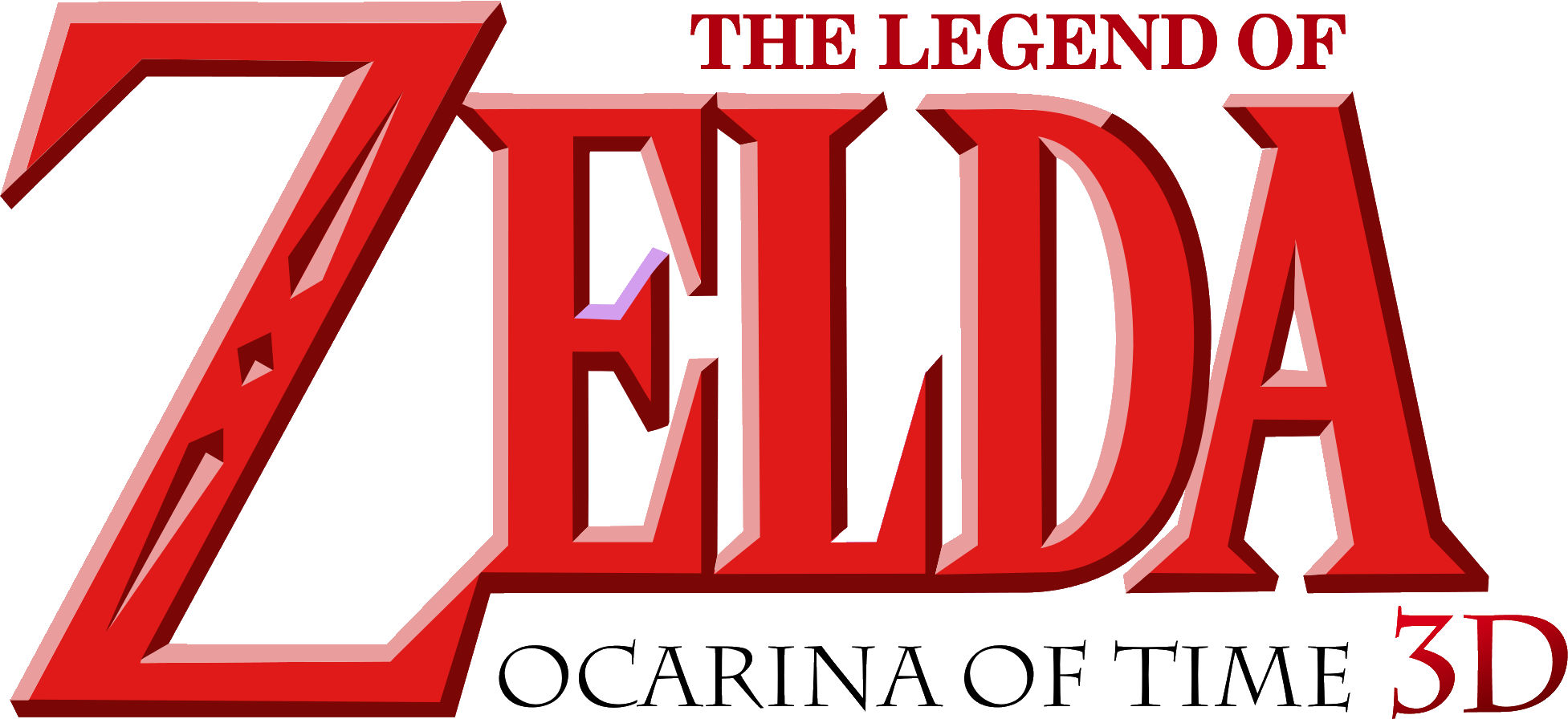 Logotype of The Legend of Zelda: Ocarina of Time 3D.